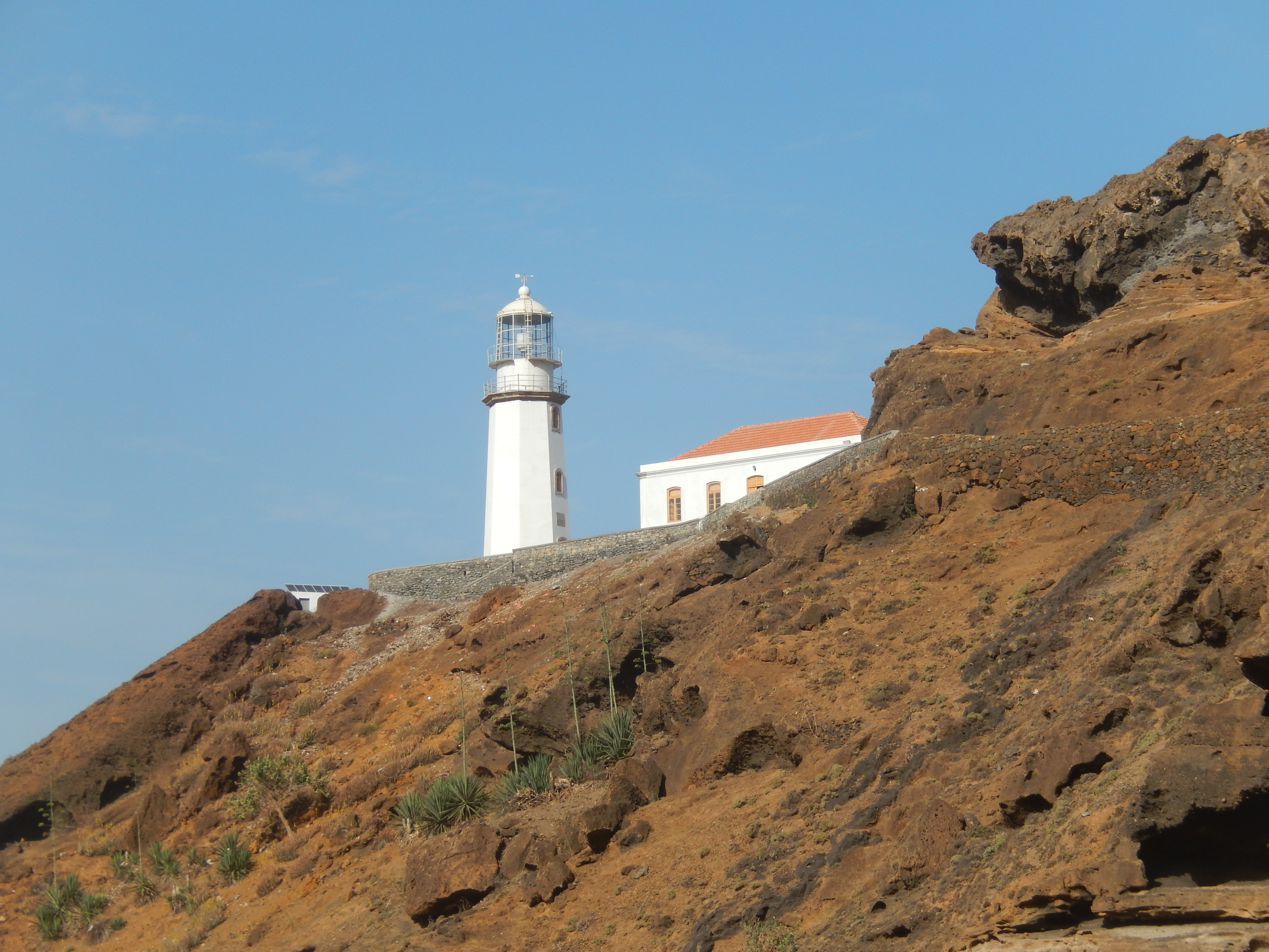 Lighthouse on Ponta de Tumba, Santa Antao. February 2019